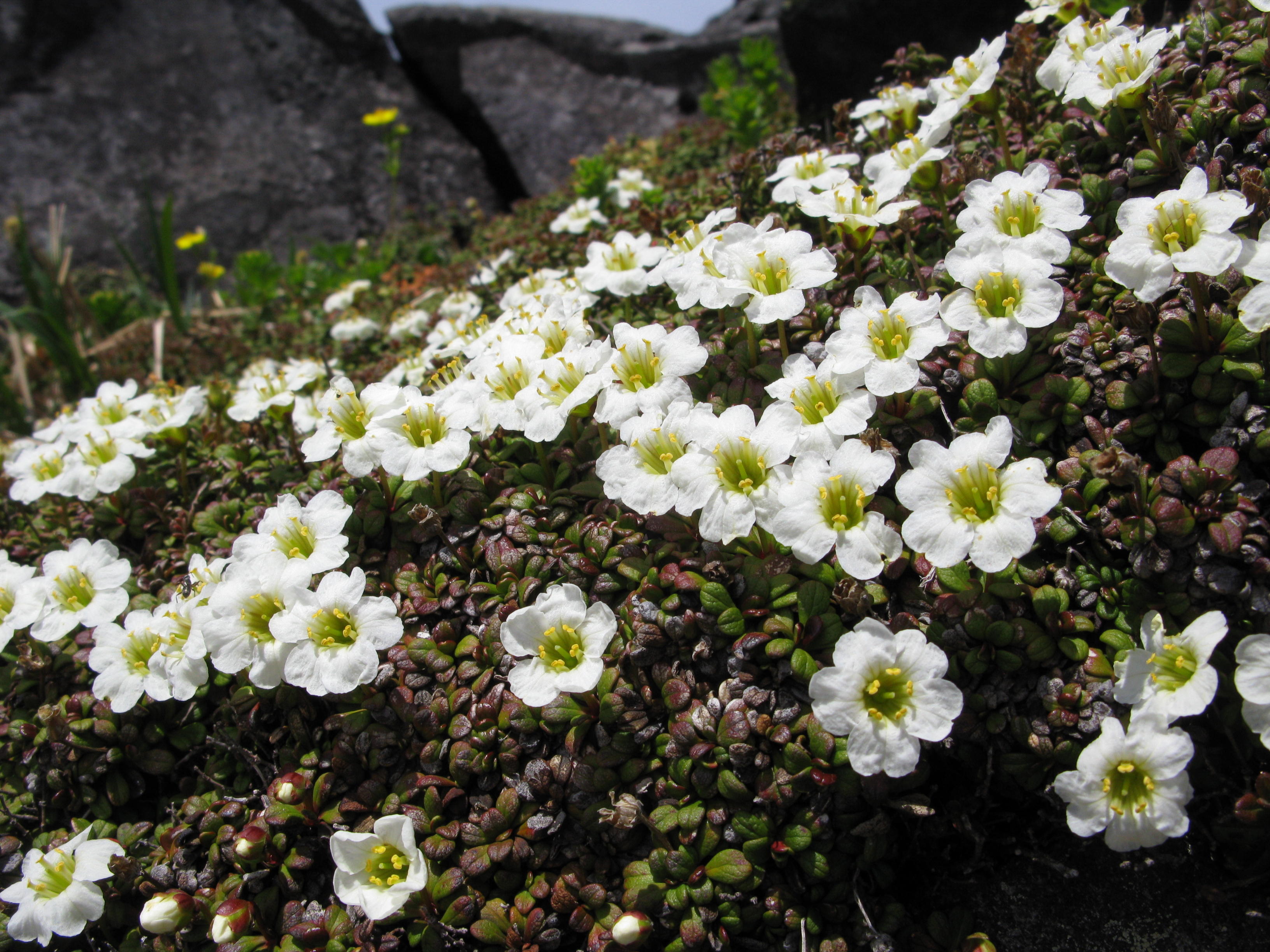 Diapensia lapponica subsp. obovata, Mount Chōkai, Yamagata pref., Japan